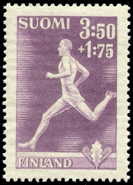 Finnish long distance runner Paavo Nurmi in 1945 stamp